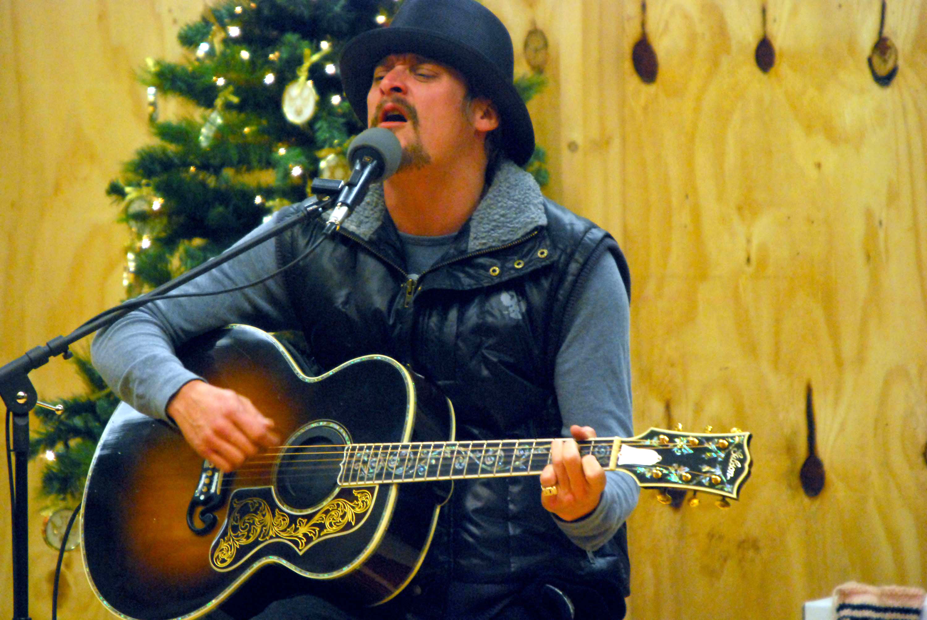 071220-M-9719V-222 KUBAL, Afghanistan (Dec. 20, 2007) Singer Kid Rock performs for military men and women as part of a United Service Organization (USO) show on board Camp Phoenix.